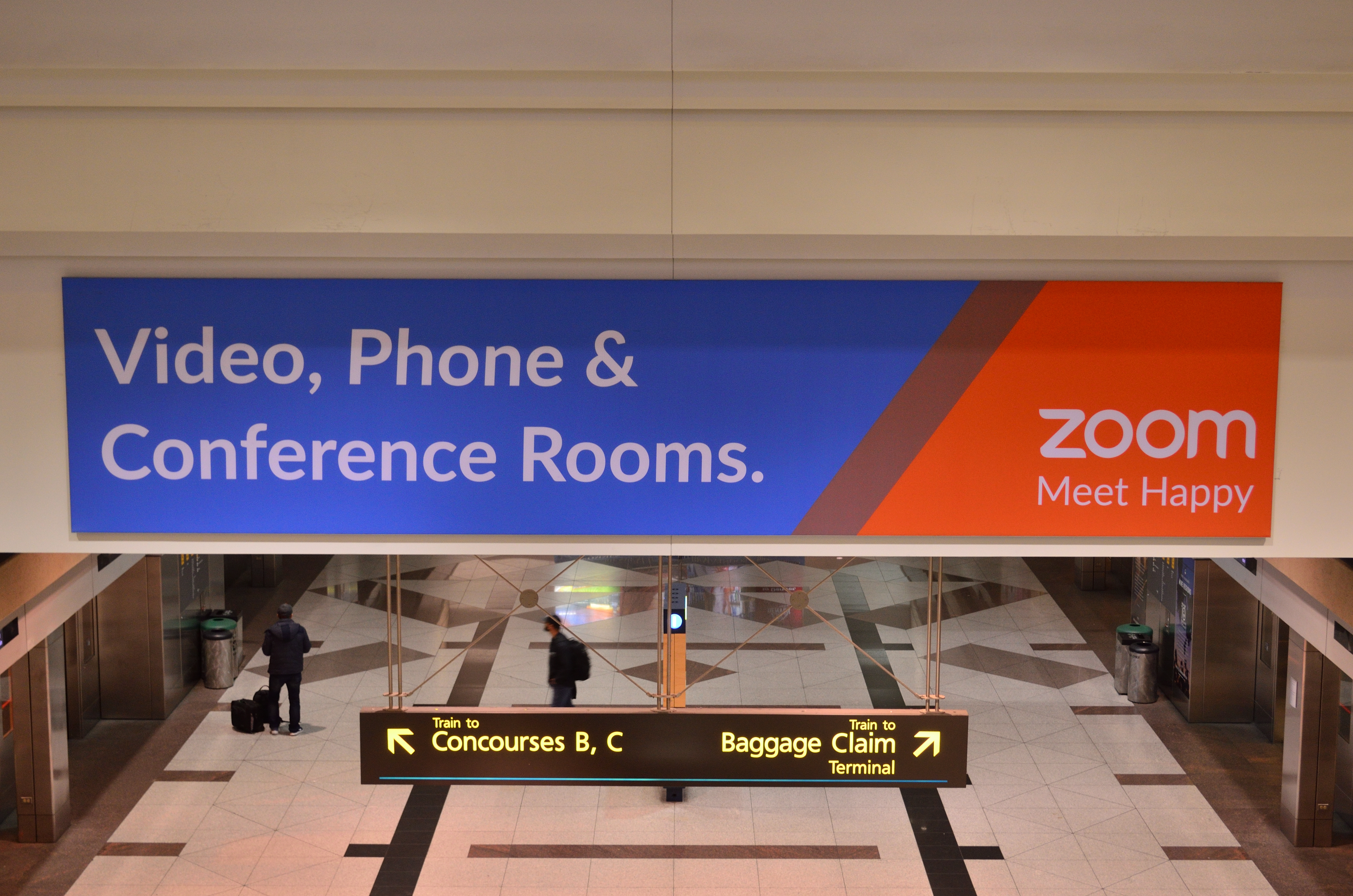 Denver International Airport - Concourse A